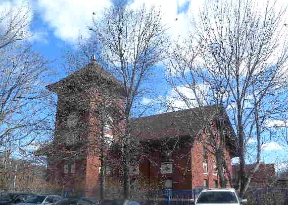 Looking northeast at 52d Precinct house on a mostly sunny morning.